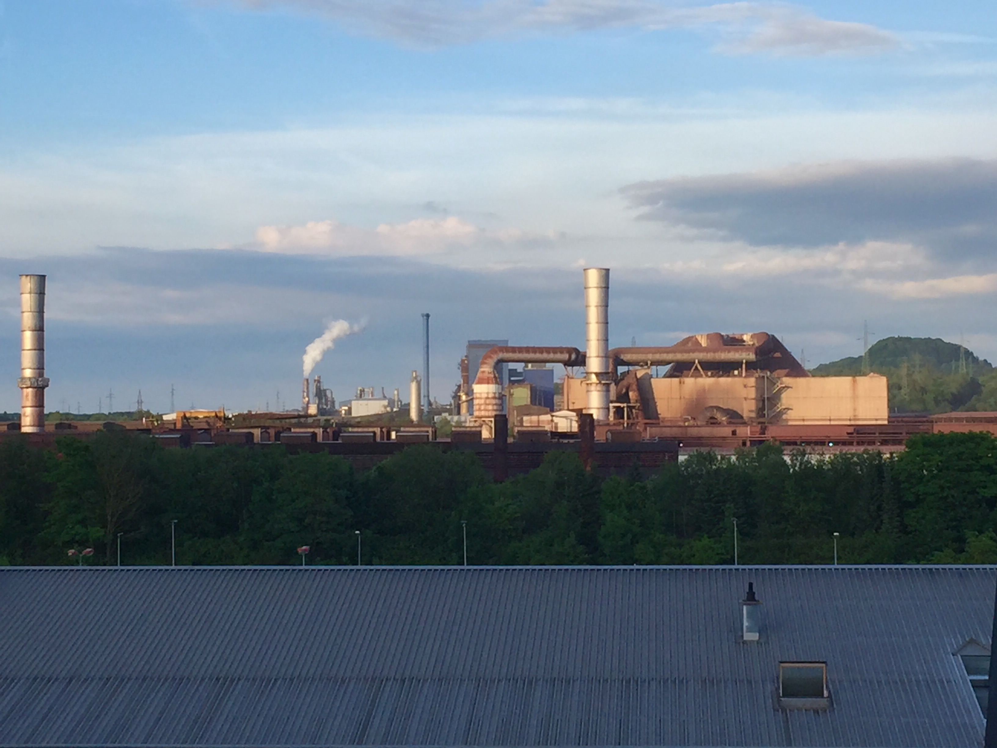 ArcelorMittal steel factory in Differdange, Luxembourg